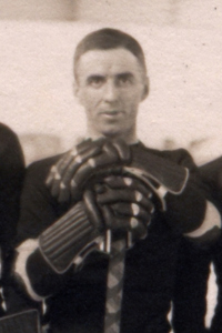 Canadian-American ice hockey player Lawrence McCormick representing the US national ice hockey team at the 1920 Summer Olympics in Antwerp, Belgium. The picture is a crop out of a larger team photo taken inside the ice rink Palais de Glace d'Anvers. The ice hockey tournament at the 1920 Summer Olympics took place between April 23 and April 29. The american team won silver medals at the games.